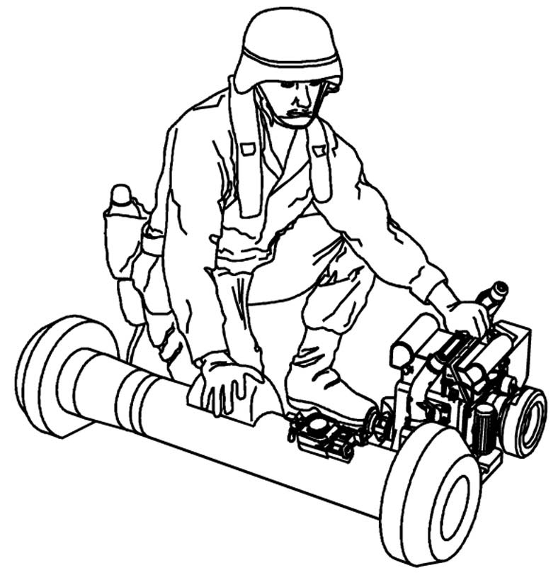 Connecting CLU to Round